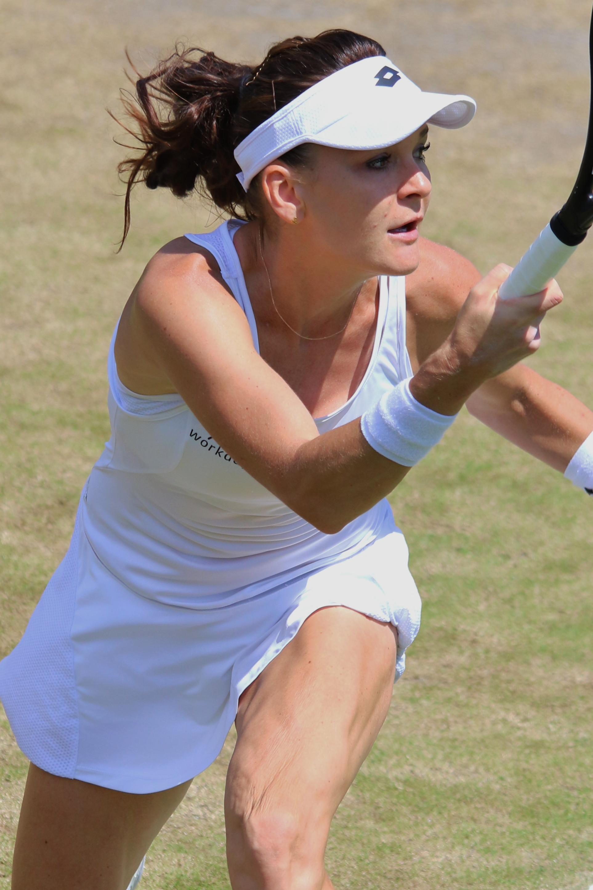 Radwanska competing at the 2017 Wimbledon Championships.